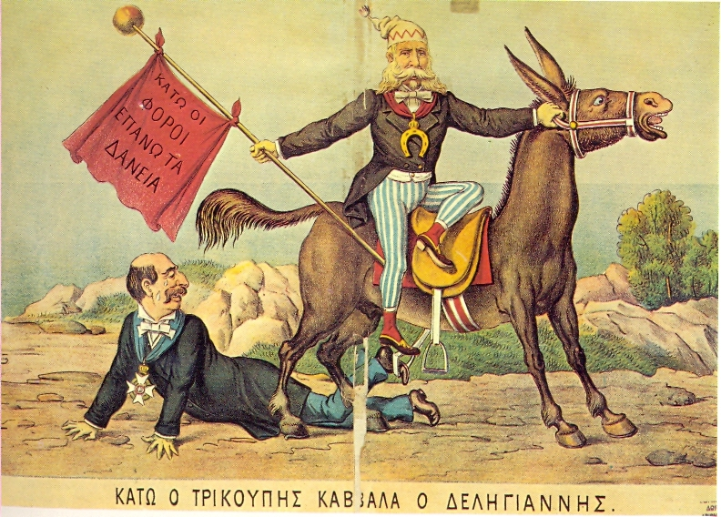 Greek satirical poster of 1895 depicting Diligiannis and Trikoupis (1895). The flag reads: "down with the taxes, up with the loans!"